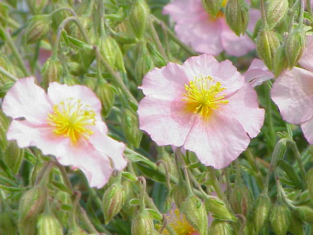 Species: Helianthemum apenninum roseum Family: Cistaceae Image No. 2